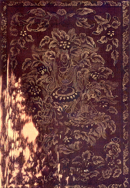 LID SURFACE of BOX STAINED WITH SAPAN JUICE AND DECORATED WITH PAINTINGS IN GOLD AND SILVER A boy dancing, two boys playing instruments, among flower patterns. gold and silver drawing on SAPAN background, 30.3 x21.2cm, 8th century, Japan Total box height is 8.6cm.Photo from woodblock reproduction color plate